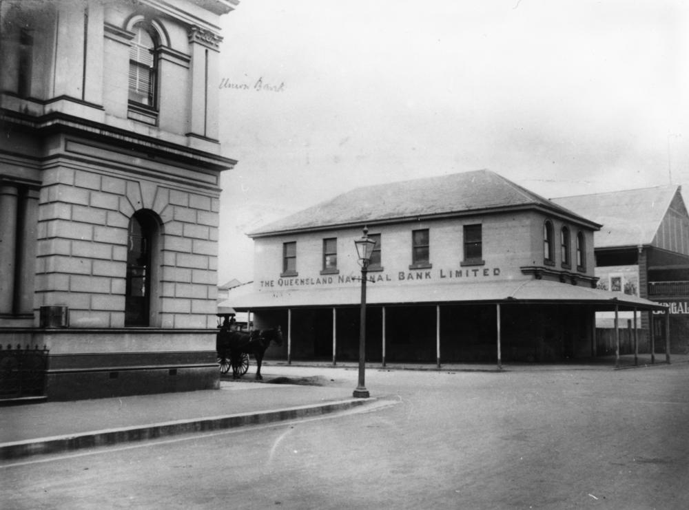 Queensland National Bank, Maryborough Originally owned and occupied by Toward, Bryant & Co. (1860s) and then demolished ca. 1914 for the new bank building. (Description supplied with photograph.).